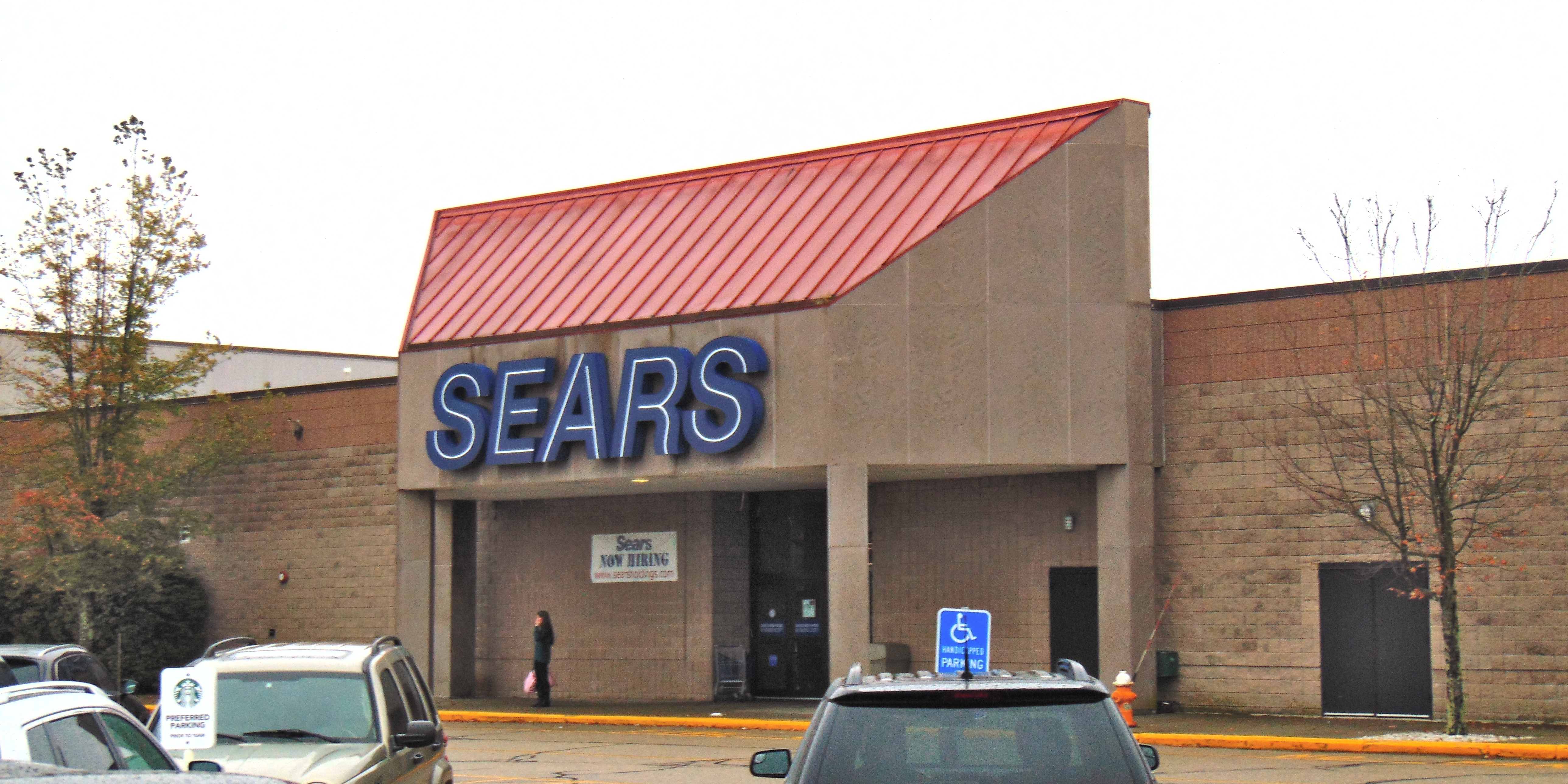 The Sears located in the Crystal Mall in Waterford, Connecticut. This file has been extracted from another file: Crystal Mall, Waterford, CT 05.jpg